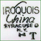 Iroquois China Company - Syracuse, New York - c.1955